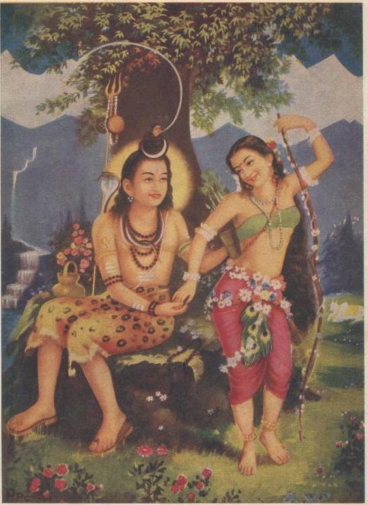 India 1940s poster SRI VISHWAMOHINI SHIV 19cm x 25cm